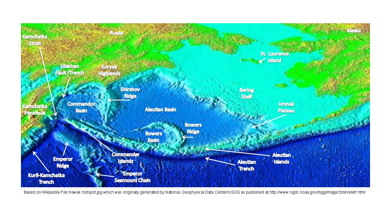 This file was created by cropping and markup of a public domain file (Based Wikipedia File:Hawaii hotspot.jpg which was originally generated by National Geophysical Data Center/USGS as published at Names of geological features were added based on a series of references, including: Zabanbark; The Petroleum Resource Potential of the Bering Sea Region; Oceanology, 2009, Vol. 49, No. 5, pp. 729–739. Verzhbitsky et al.; Plate Tectonics of the Northern Part of the Pacific Ocean; Oceanology, 2007, Vol. 47, No. 5, pp. 705–717. Takahashi, The Bering Sea and paleoceanography; Deep-Sea Research II 52 (2005) 2080–2091 Shapiro; Cenozoic Volcanic Rocks of North Kamchatka: in Search of Subduction Zones; Geotectonics, 2011, Vol. 45, No. 3, pp. 210–224.